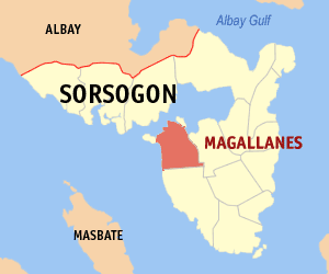 Map of Sorsogon showing the location of Magallanes